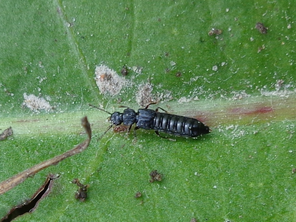 Anotylus rugosus. Found in Bērzi village near Bauska city, Latvia